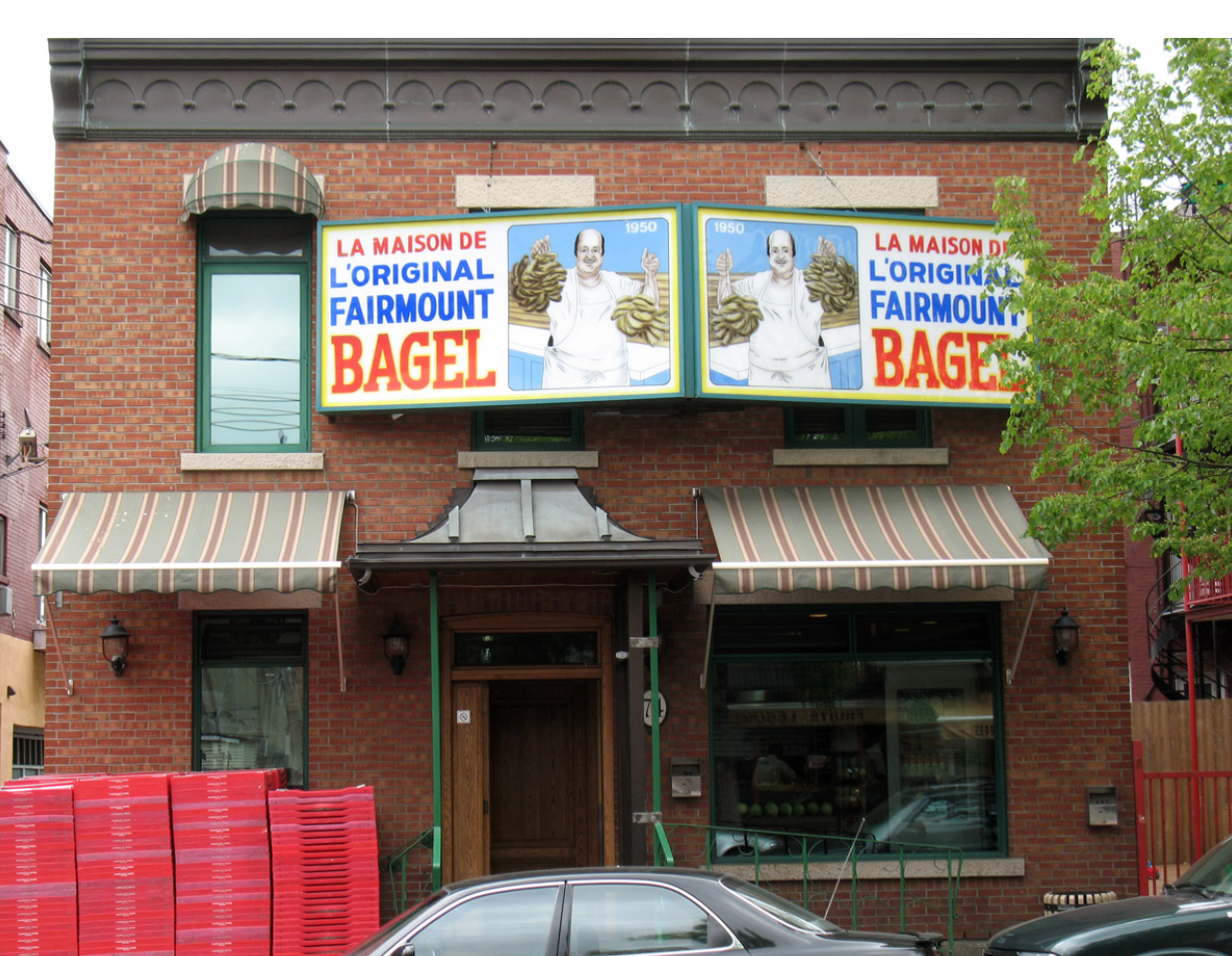 Image of Fairmount Bagel Bakery In Montreal